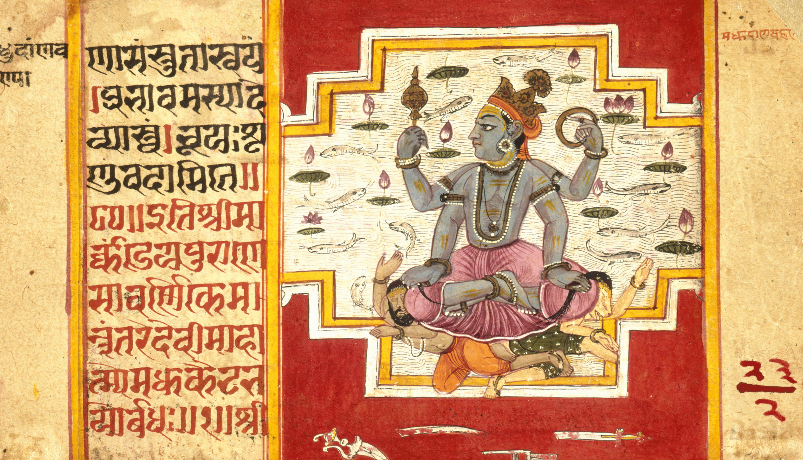 Vishnu Fighting Madhu and Kaitabha (Verse), Folio from a Devi Mahatmya (Glory of the Goddess) Painting; Watercolor